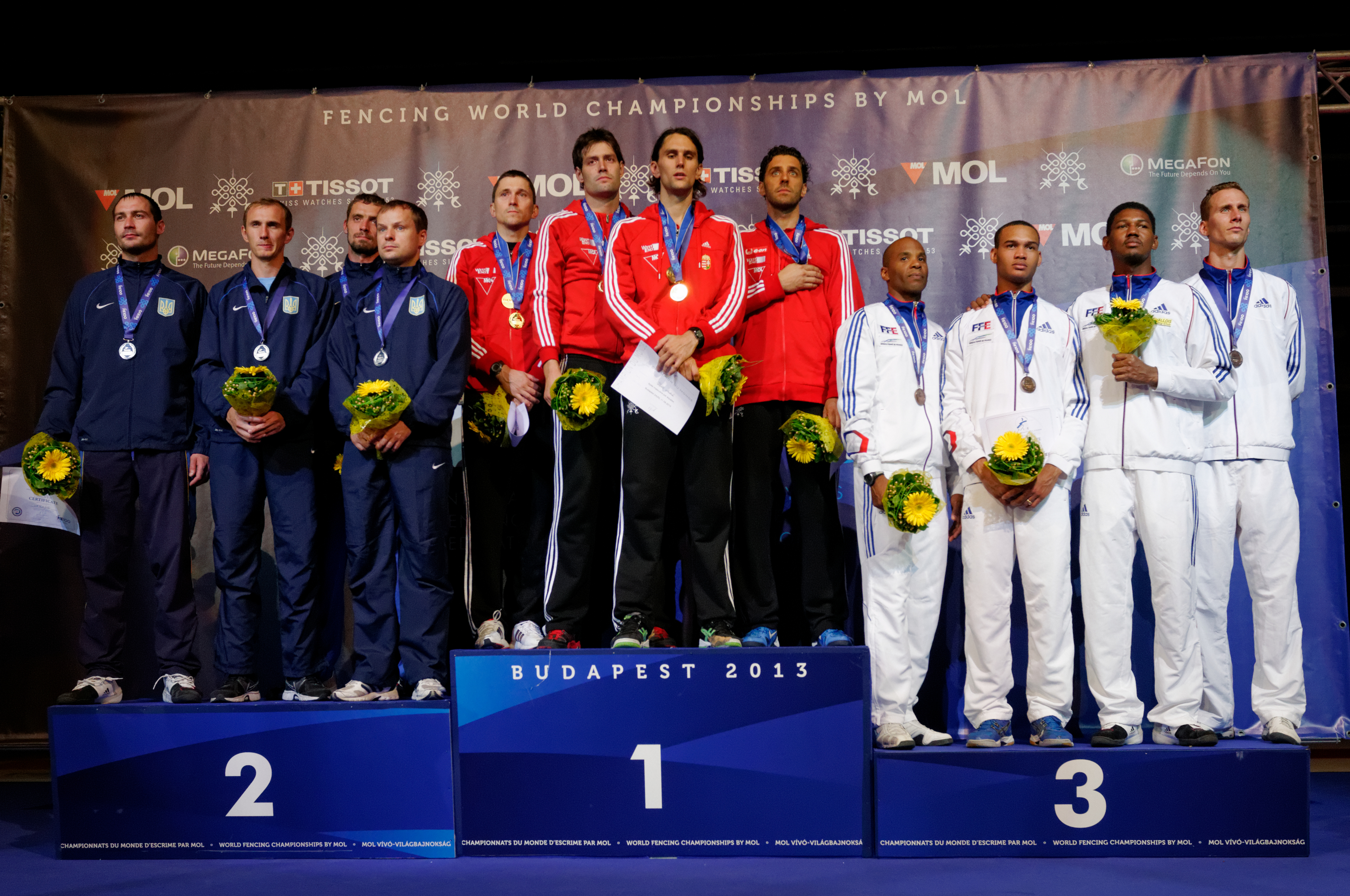 From left to right, Ukraine, Hungary and France on the podium of the men's team épée at the 2013 World Fencing Championships 2013 at Syma Hall in Budapest on 11 August 2013.